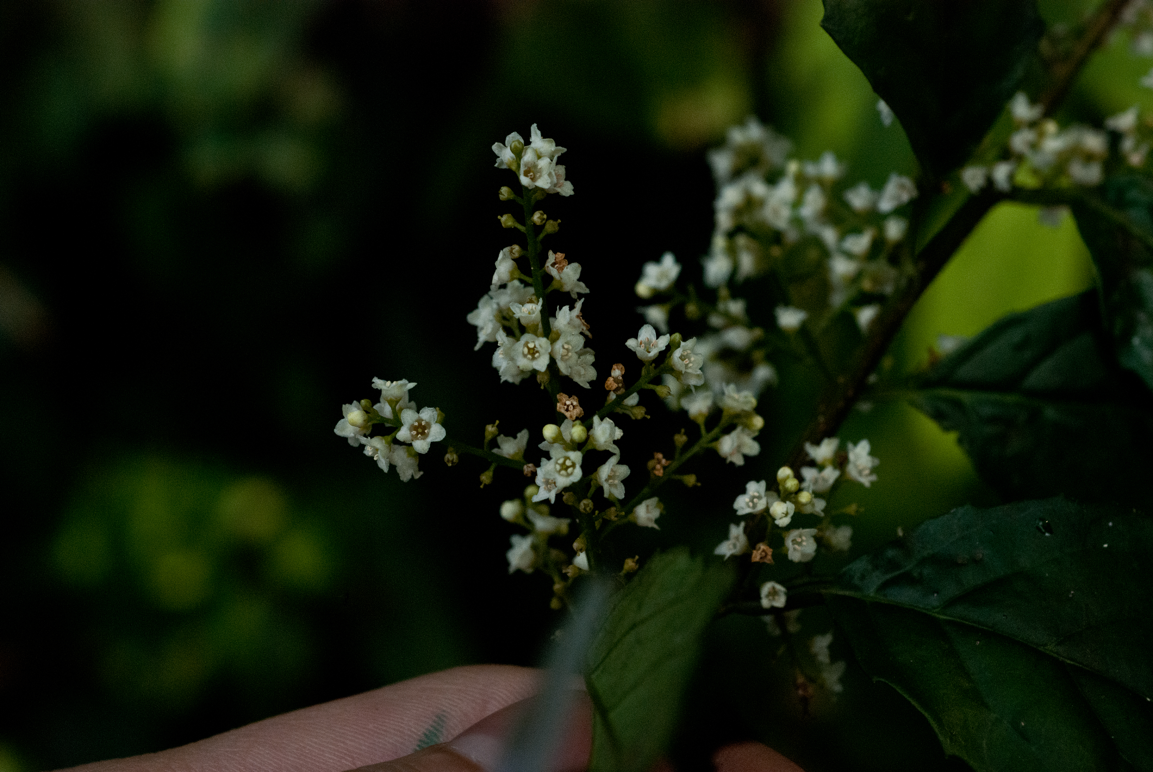 Flowers of Maesa perlaria